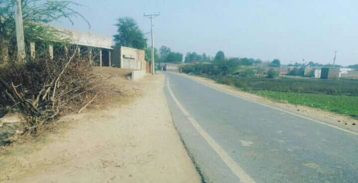 I also Uploaded this Photo on Botala Facebook Page & on website